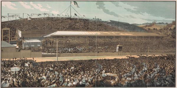 Engraving of the finish line at the Melbourne Cup of 1881. Made by "S.B.", published in the Illustrated Australian News in November 1881.